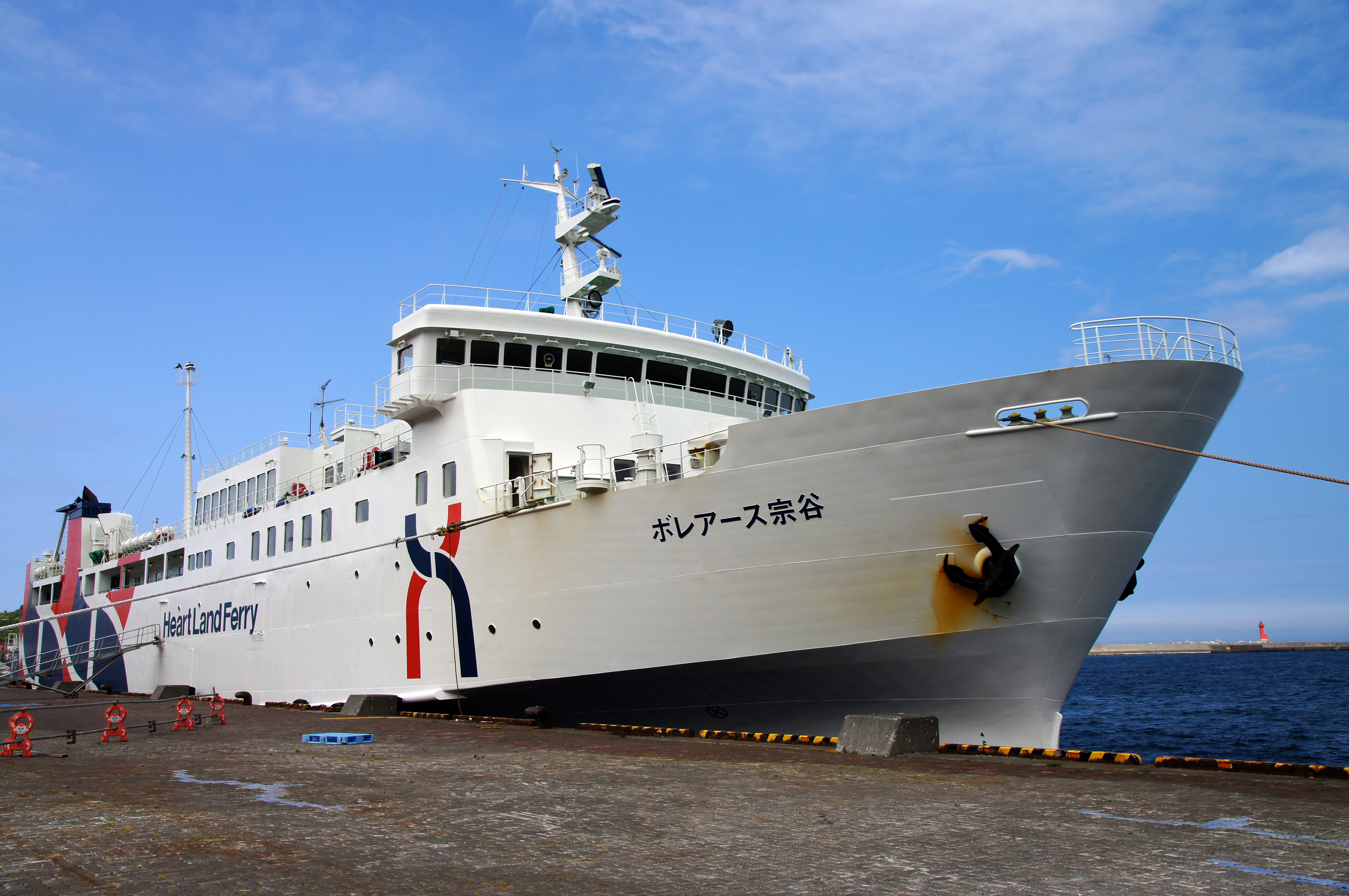 Oshidomari Port in Rishiri Island, Hokkaido, Japan.